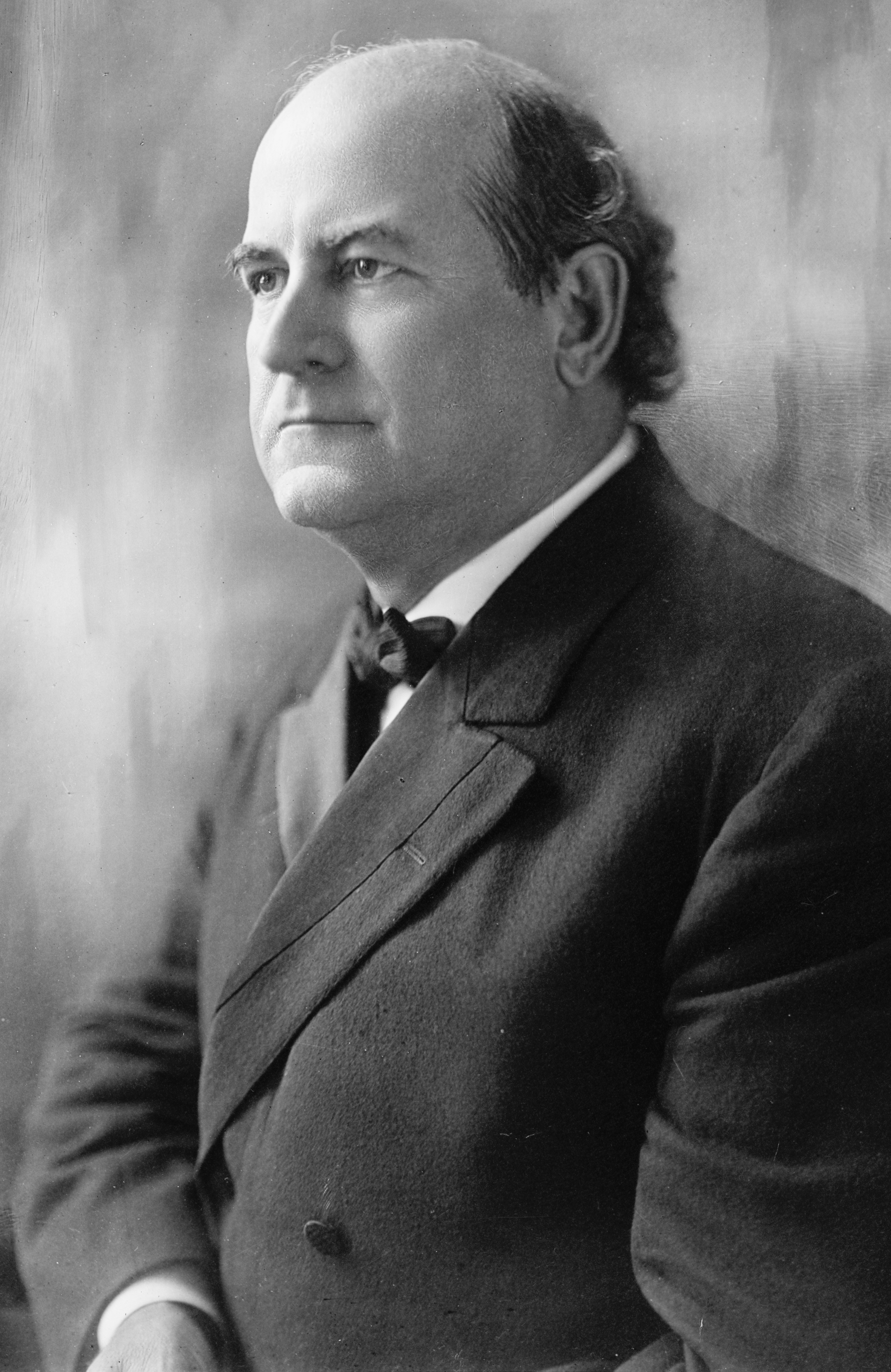 William Jennings Bryan. 1 negative: glass ; 8×10 in. or smaller.